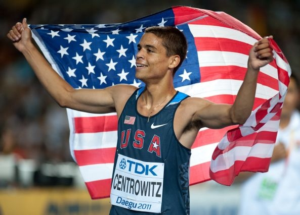 Matthew_Centrowitz during 2011 World championships Athletics in Daegu